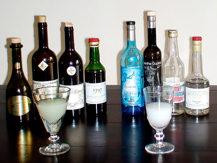 A group of modern Absinthe. Left vertes, right blanches with a prepared glass of each. Crop from Modern absinthe bottles